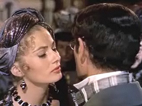 Cropped screenshot of Anita Ekberg from the trailer for the film War and Peace.